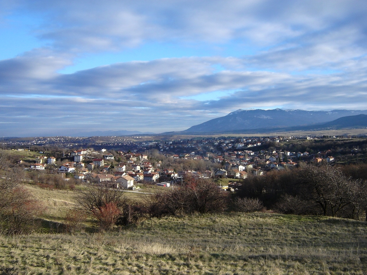 Bankya, with Sofia and Vitosha Mountain in the background. Photograph by Kiril Kapustin published in under Creative Commons license 2.5.